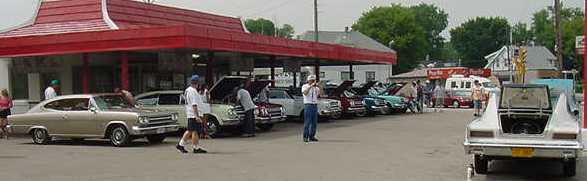 Marlin Auto Club meeting in Kenosha - some of the 1965 and 1966 AMC Marlins on display - held at Andy's Drive In (located at 2929 Roosevelt Road, Kenosha, WI 53143-4641)